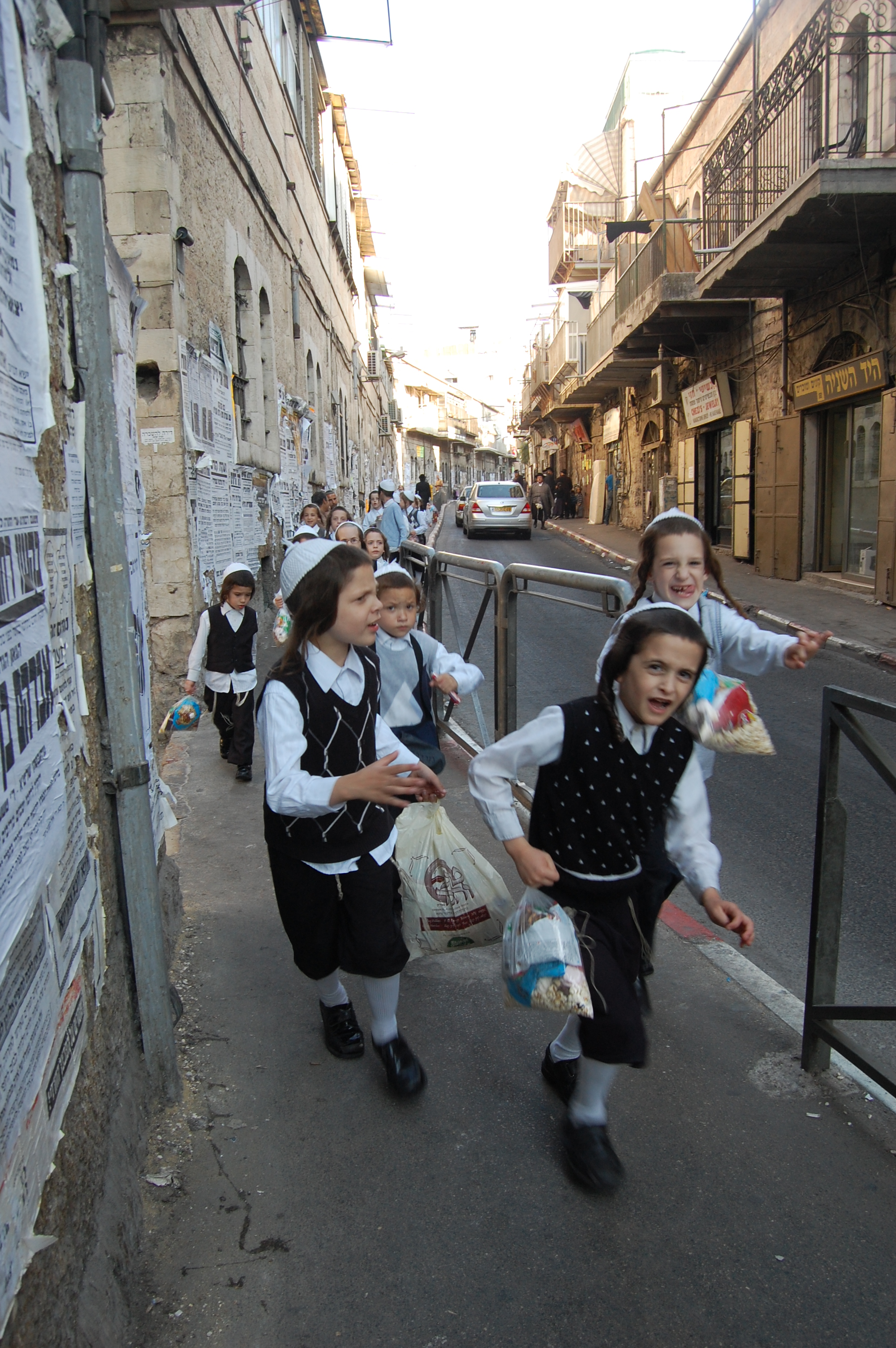 Jerusalem, Mea Shearim neighborhood, Mea Shearim street, jewish hasidic children.